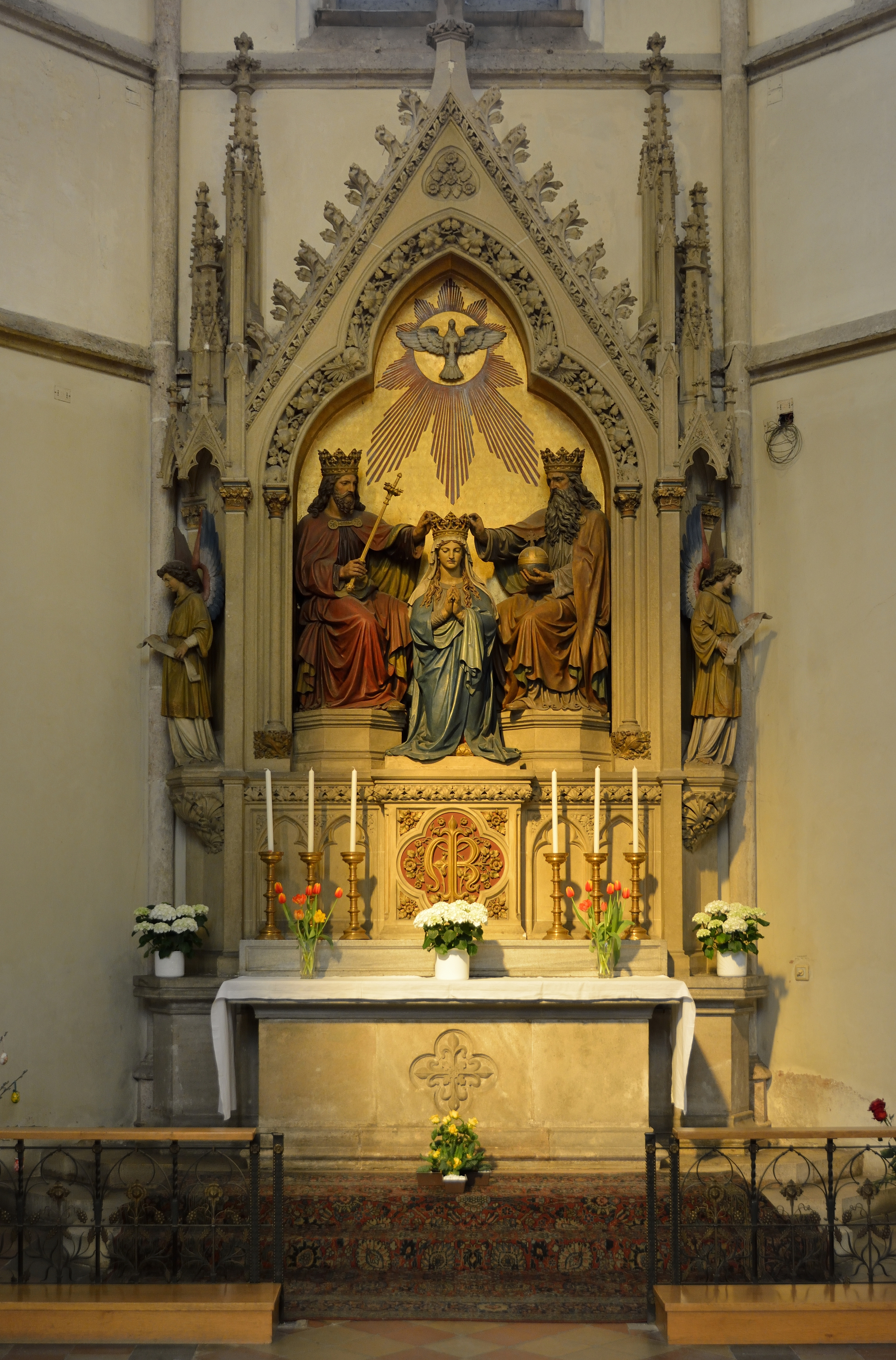 Katholic parish church St. Othmar unter den Weißgerbern, altar Maria-Krönungsaltar with statues by Johann Melnitzky, Kolonitzplatz, 3rd district of Vienna